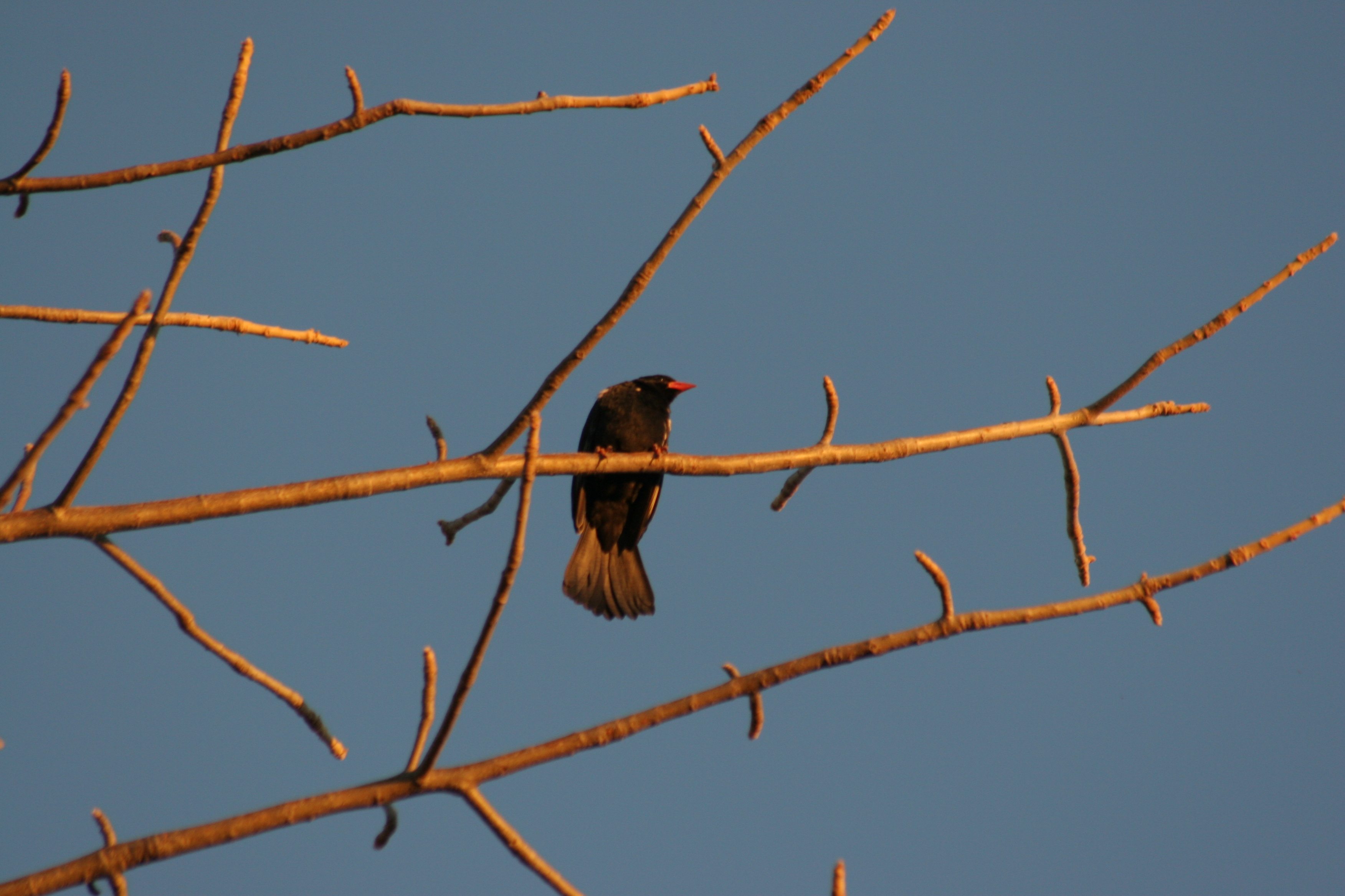 Red-billed Buffalo-weaver (Bubalornis niger)